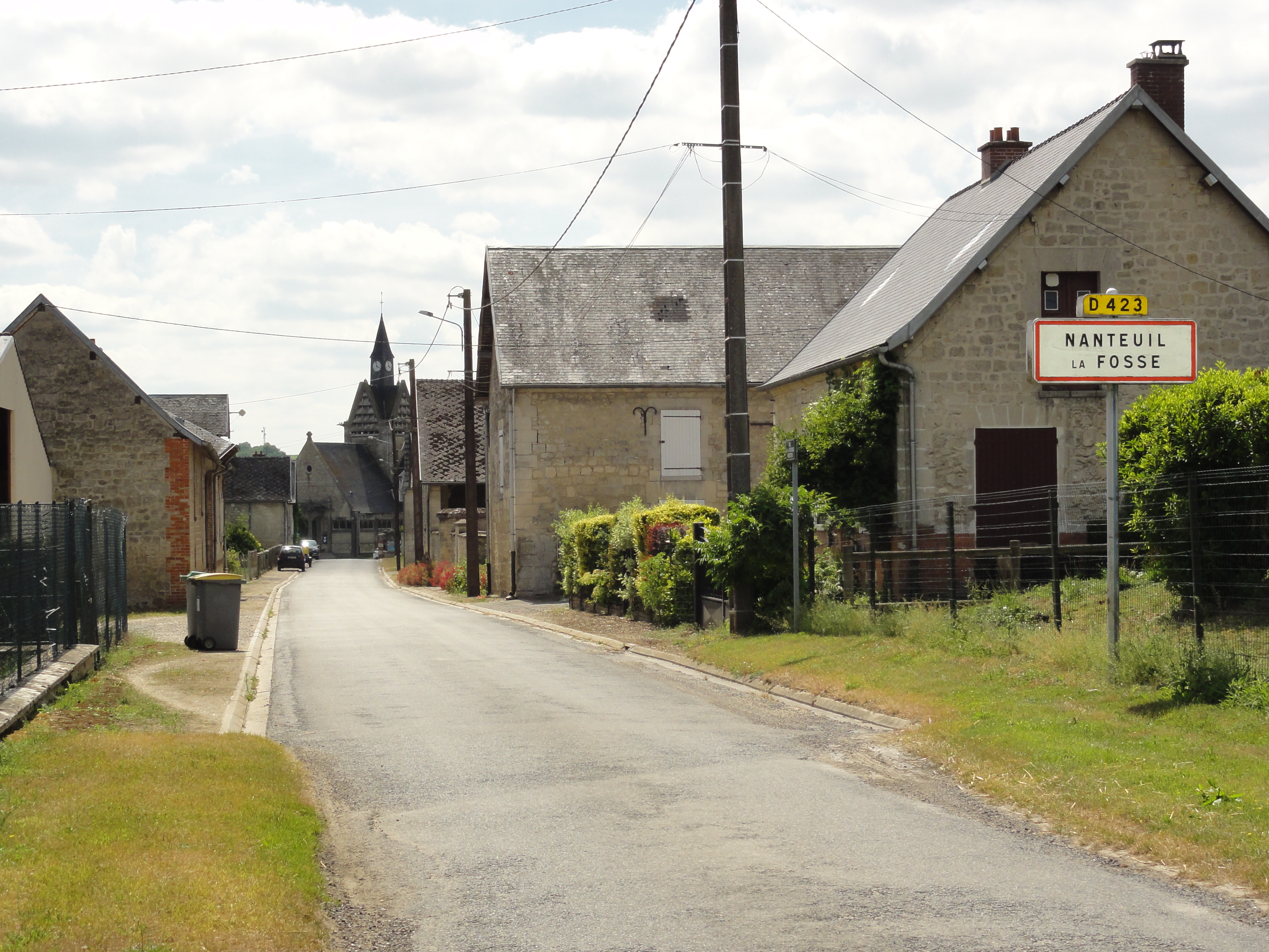 Nanteuil-la-Fosse (Aisne) city limit sign